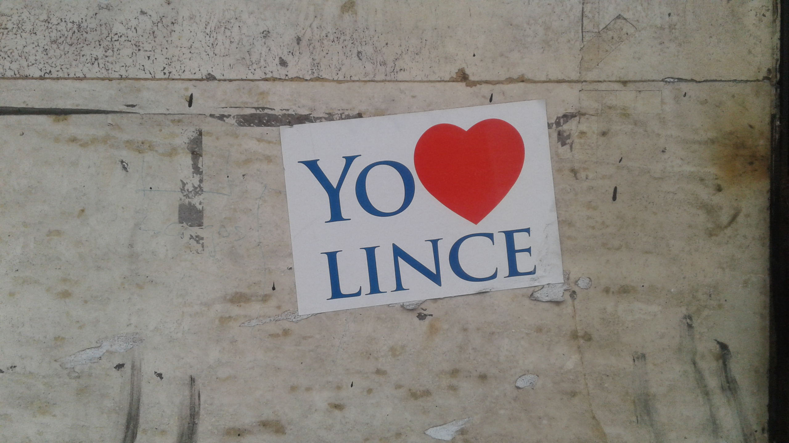 Yo ❤ Lince.